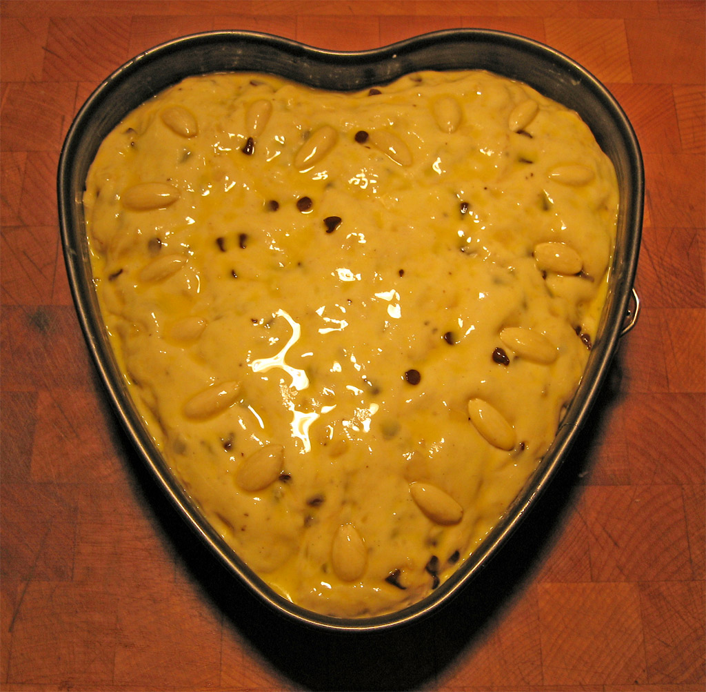 Heart-shaped panbrioche dolce.